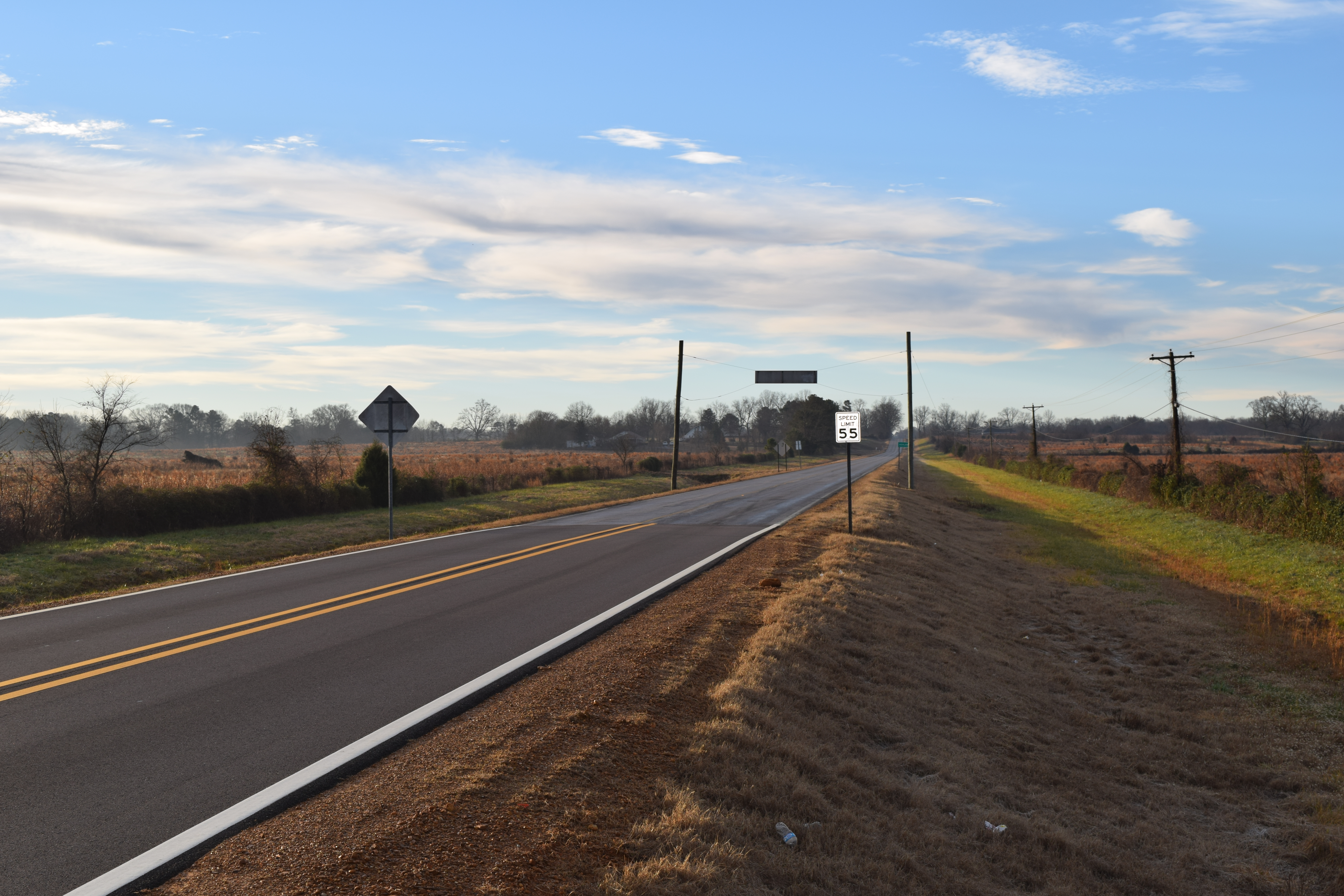 Looking south along Mississippi Highway 5 near its northern terminus with US highway 72